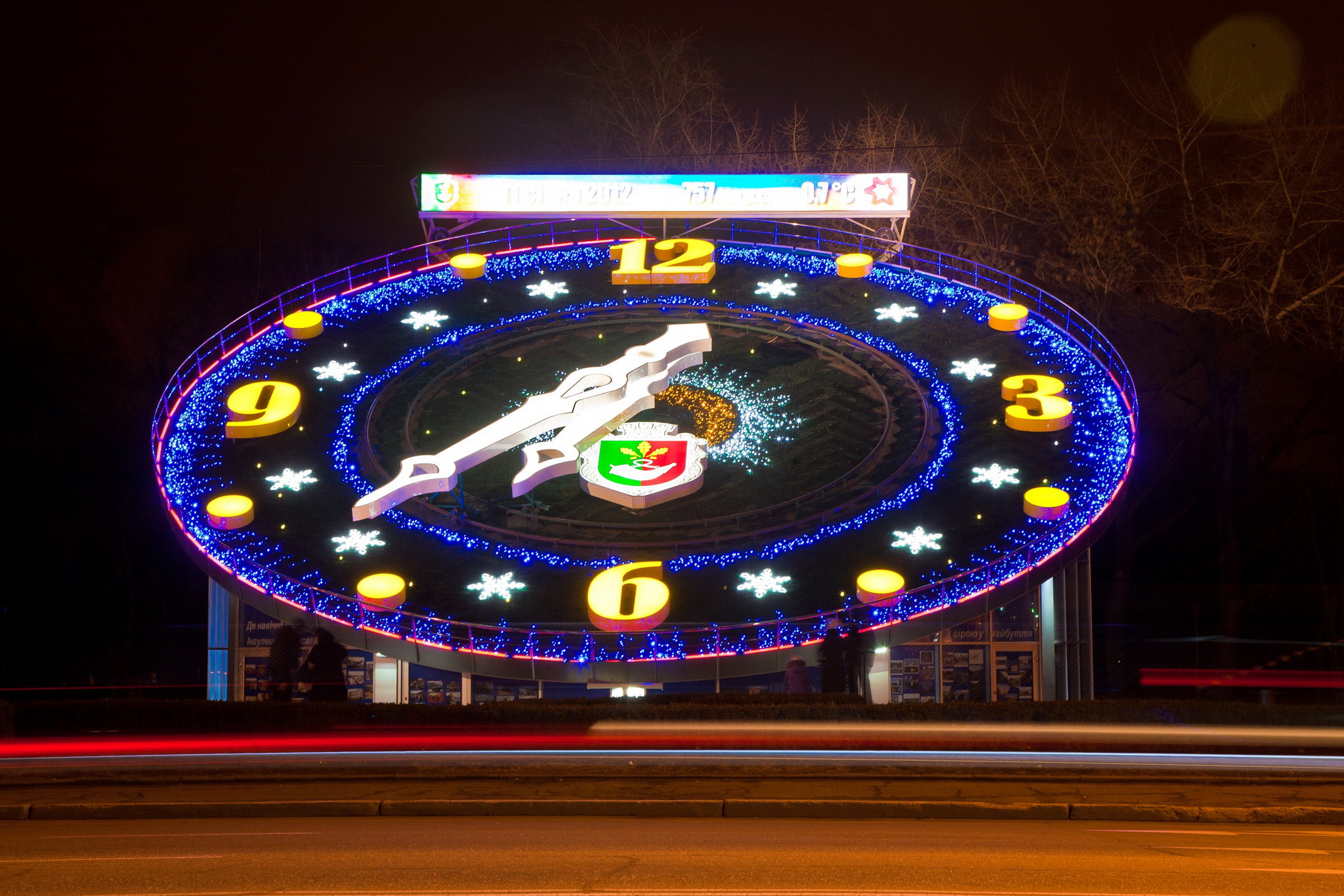 The biggest flower clock in Europe. Kryvyy Rih, Ukraine